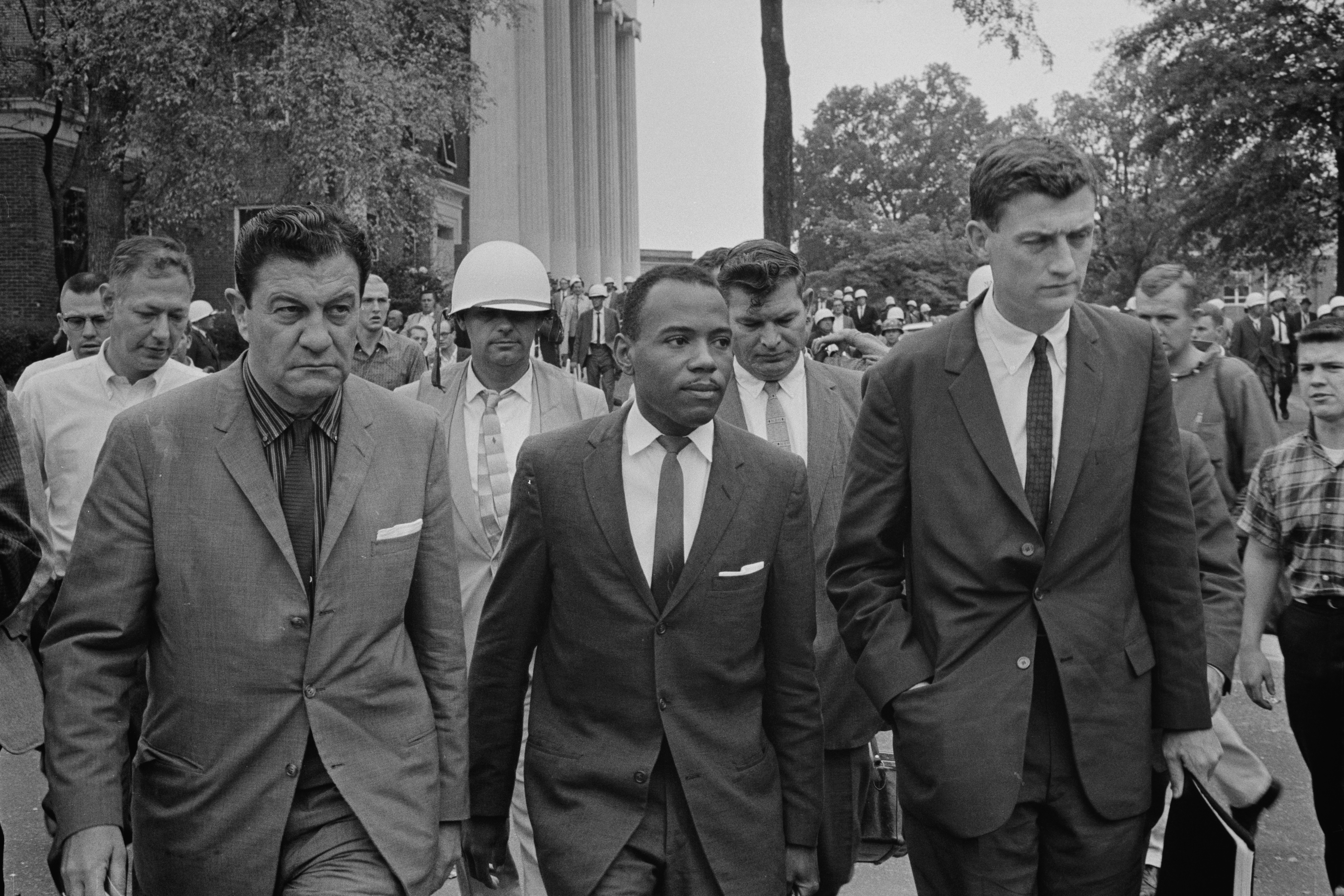 Photograph shows James Meredith walking to class accompanied by U.S. marshals.; James Meredith walking to class at University of Mississippi, accompanied by U.S. marshals. According to the men flanking Meredith are U.S. Marshal James McShane (left) and John Doar of the Justice Department (right)